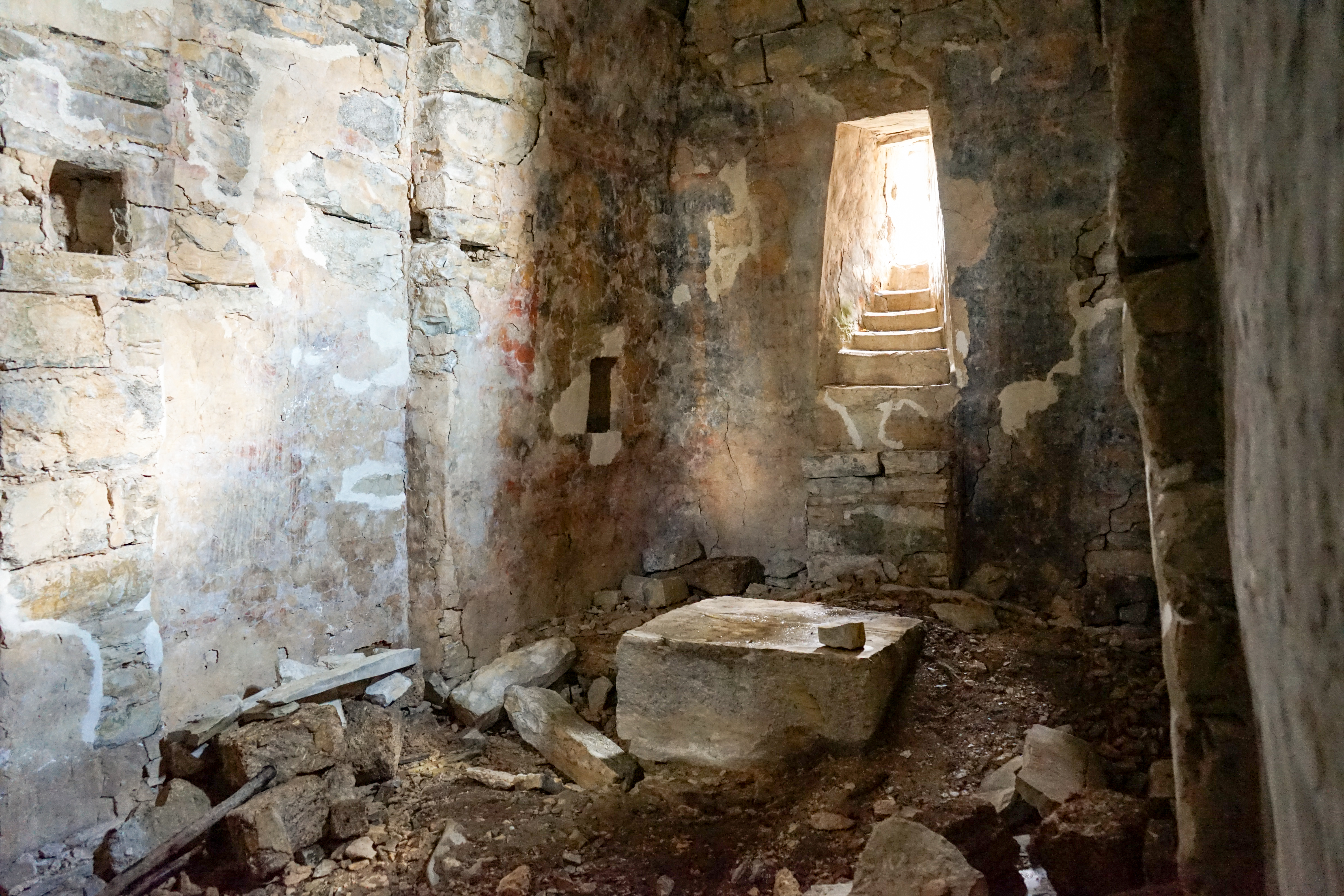 Saint George Church of Mzetsveri (IX-X cc.), Buchaani, Mtskheta-Mtianeti, Georgia